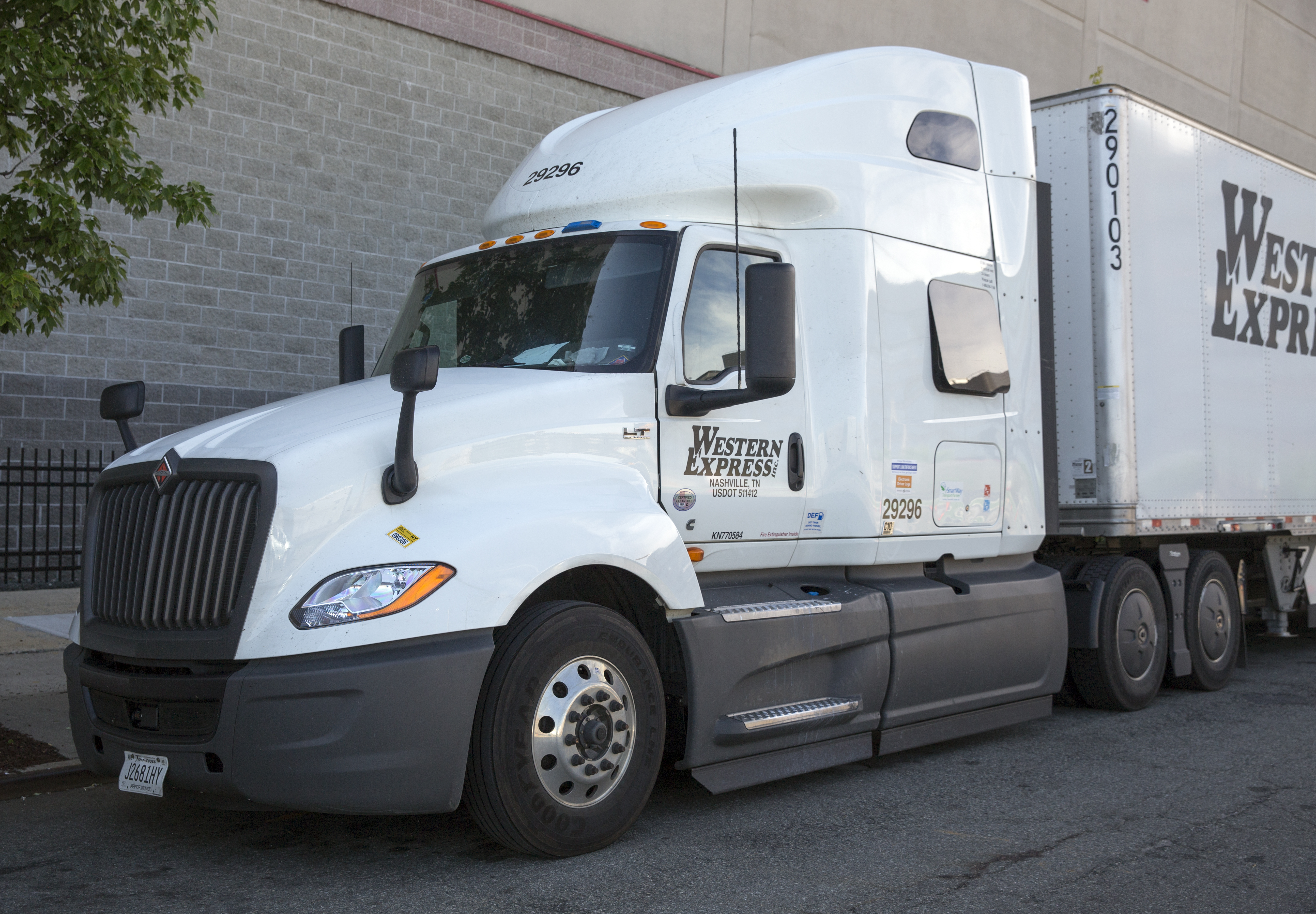 A 2019 International LT625 in Brooklyn, NY.